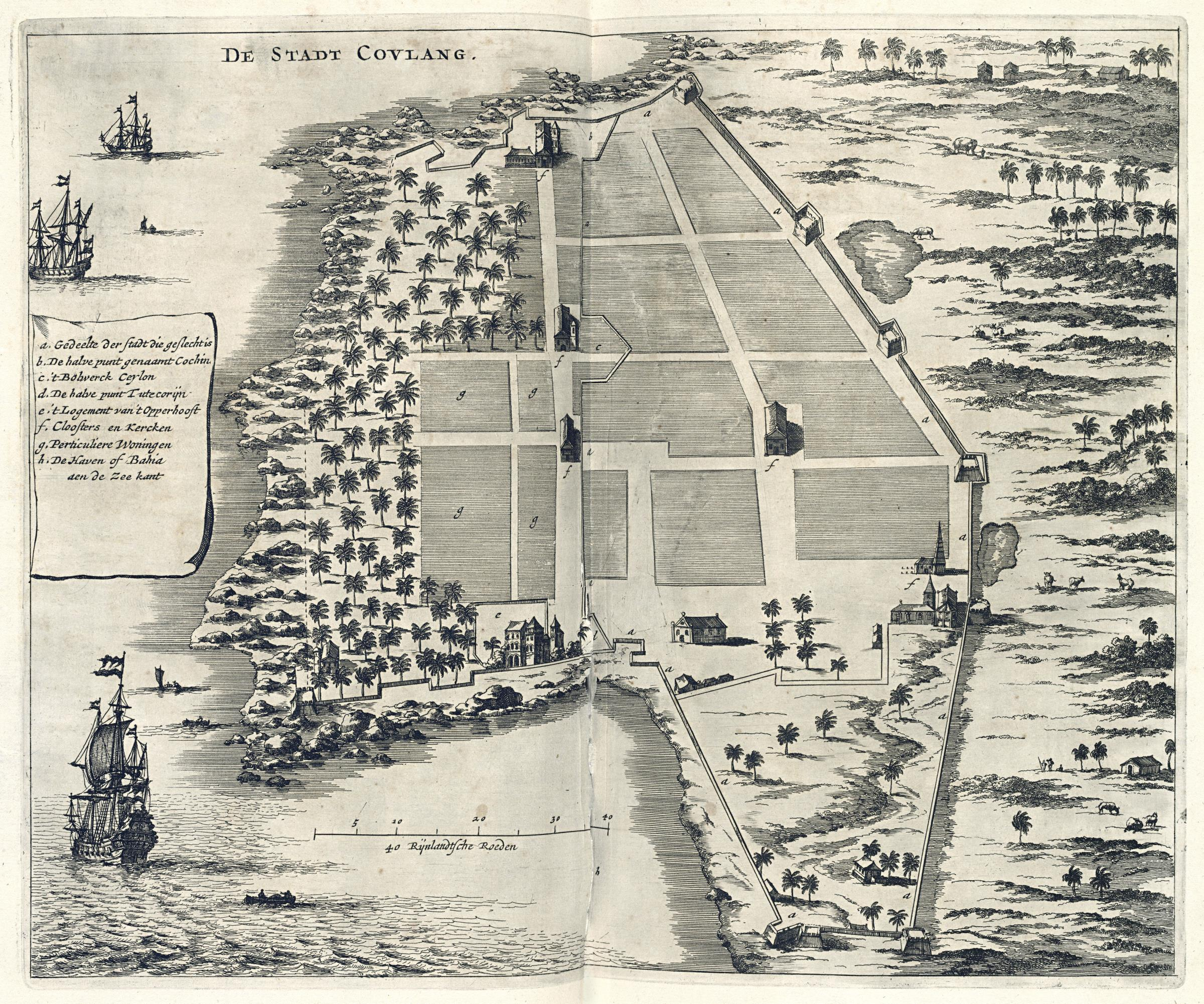 Bird's eye view of Coylan. De Stadt Covlan. Key: a. Gedeelte der stadt die geslecht is / b. De halve punt genaamt Cochin / c. 't Bolwerck Ceylon / d. De halve punt Tutecorijn / e. 't Logement van 't Opperhooft / f. Cloosters en Kercken / g. Perticuliere Woningen / h. De Haven of Bahia aen de zee kant.